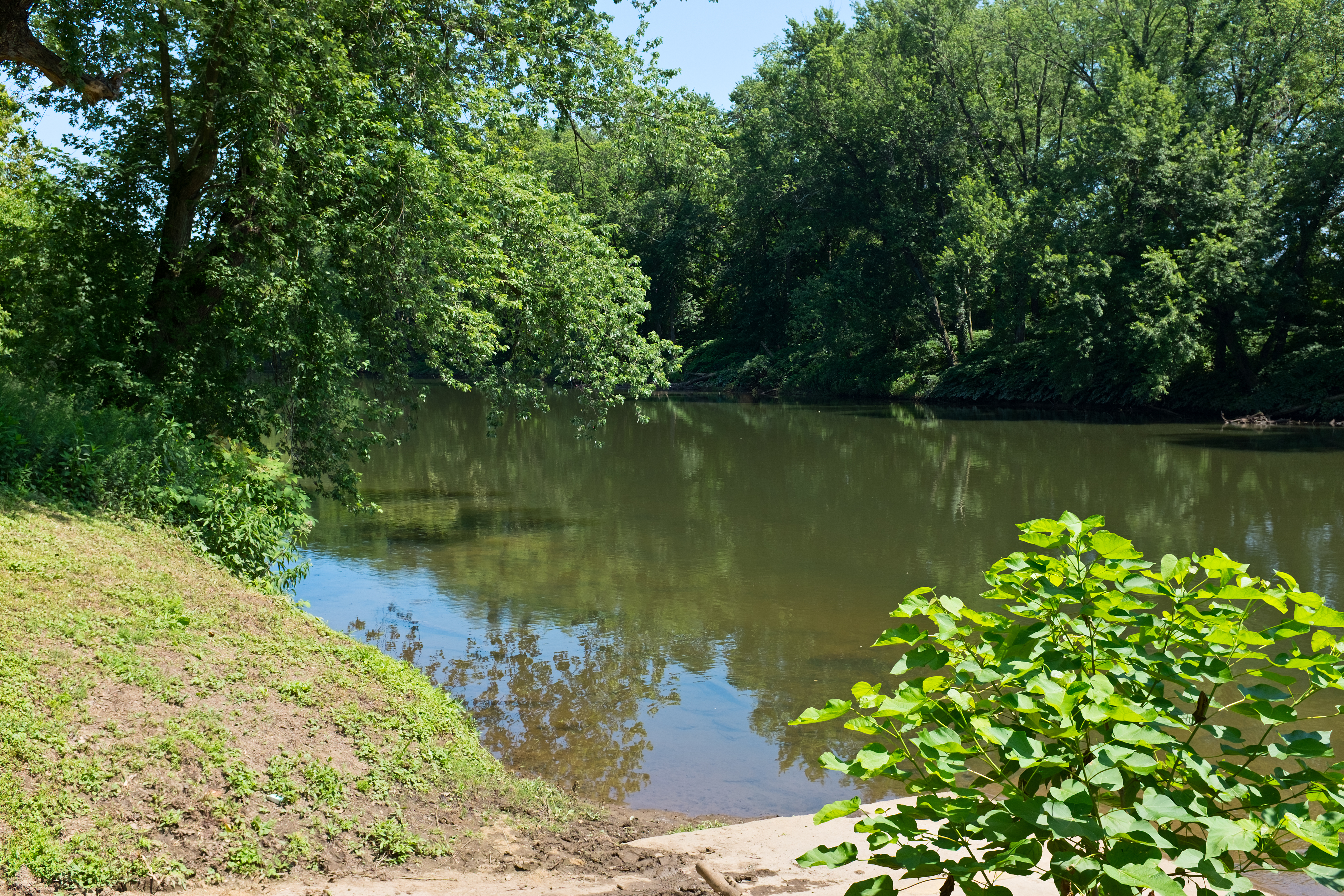 Potomac river, as seen from Spring Gap recreational area. Note boat ramp in pic.